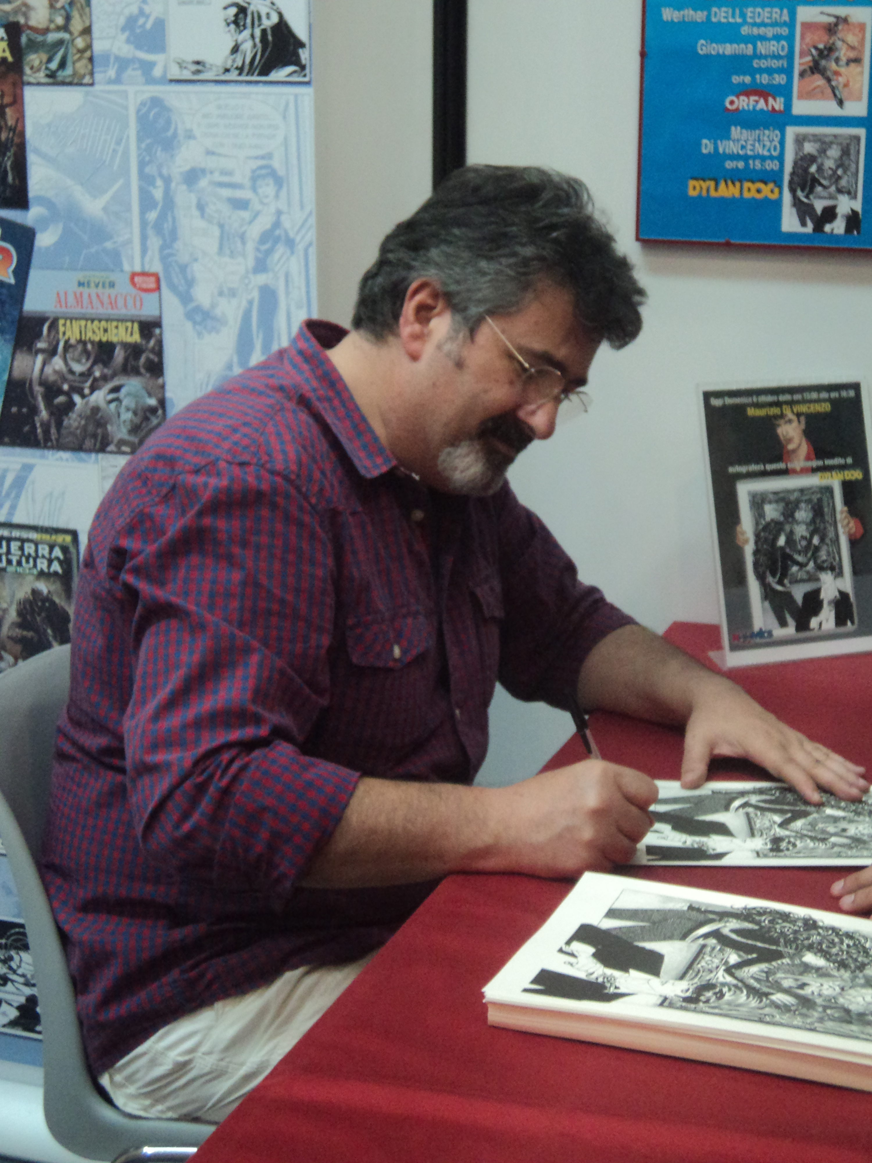 Maurizio di Vincenzo at Romics 2013 - Autumn Edition